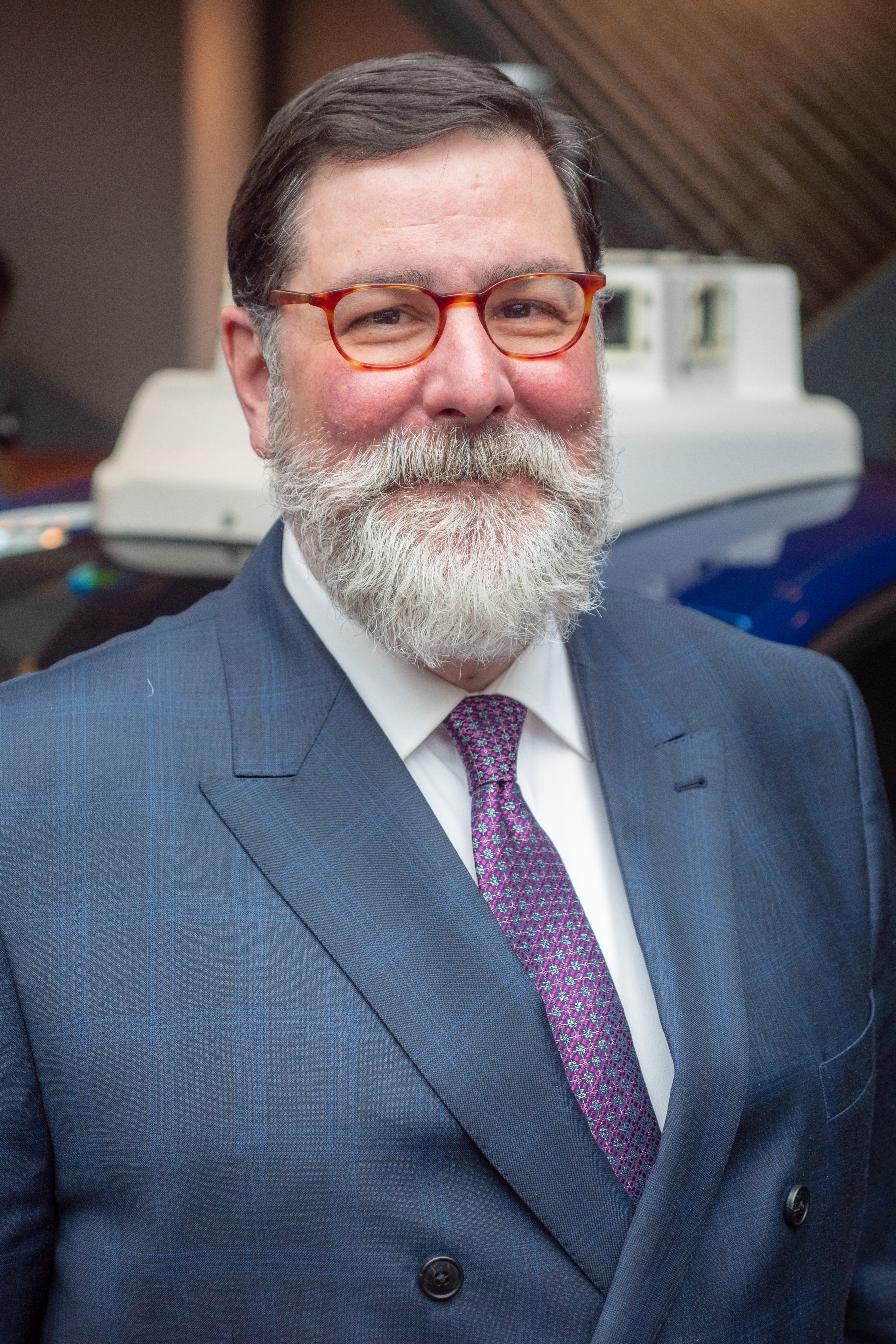 City of Pittsburgh Mayor William Peduto in 2019